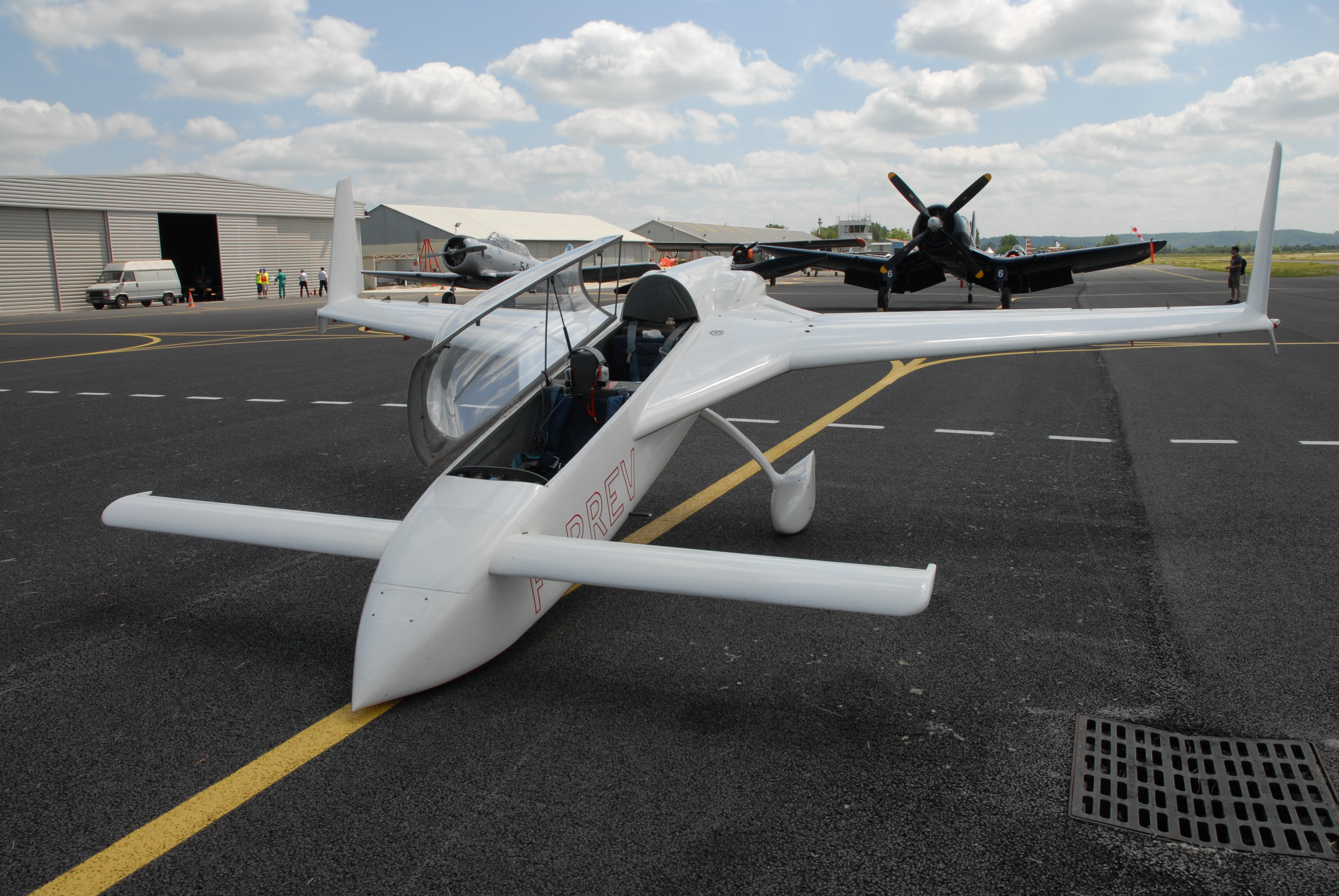 Rutan VariEzeManufacturer(homebuilt)ModelRutan VariEzeTypetourismCharacteristicscomposite, canardRegistration IDF-PREVOwnerWeber RealBased inColmar Houssen